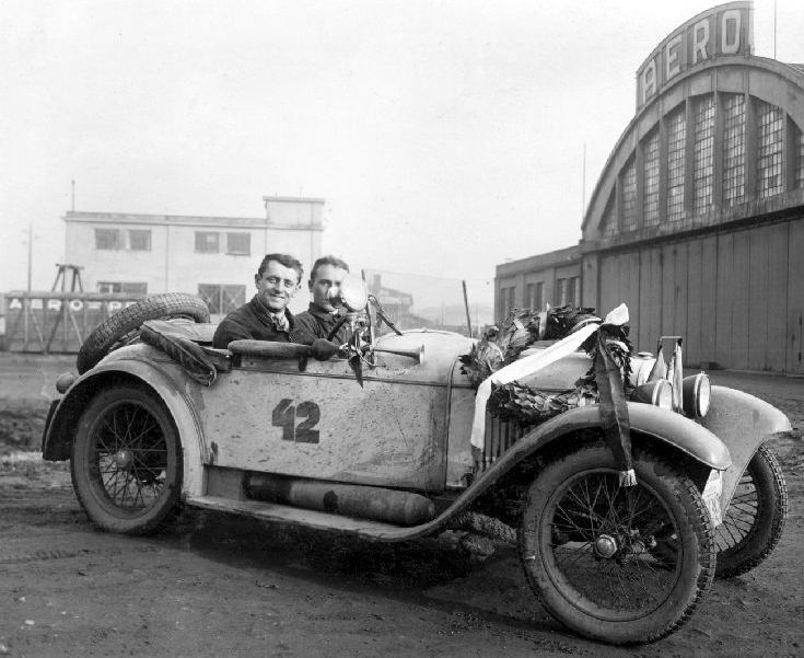 Bohumil Turek, Aero 500 (1929). Winner of the star ride to the automobile exhibition in Prague.